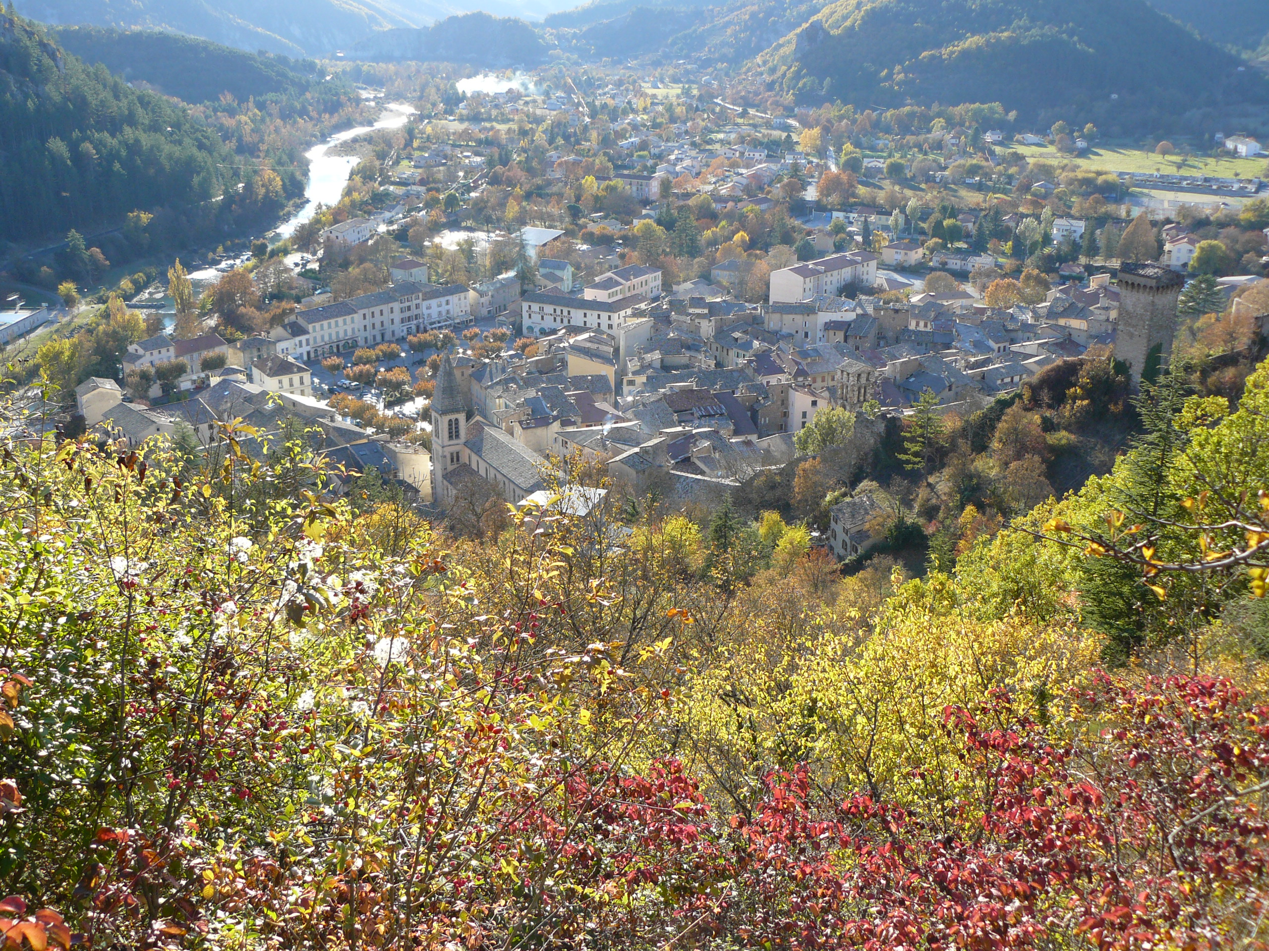 Castellane village